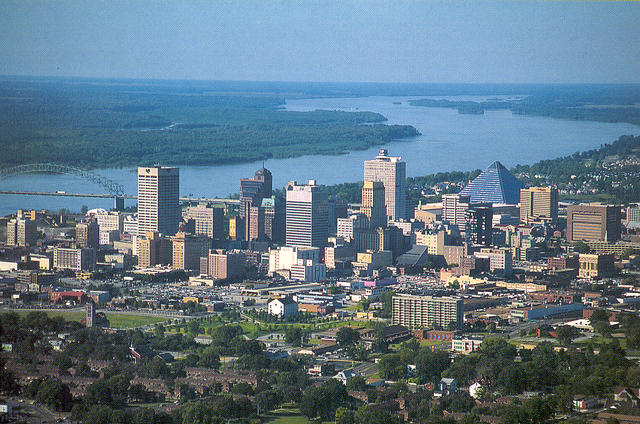 Memphis, Tennessee skyline from the air. A photograph by myself while in Memphis]